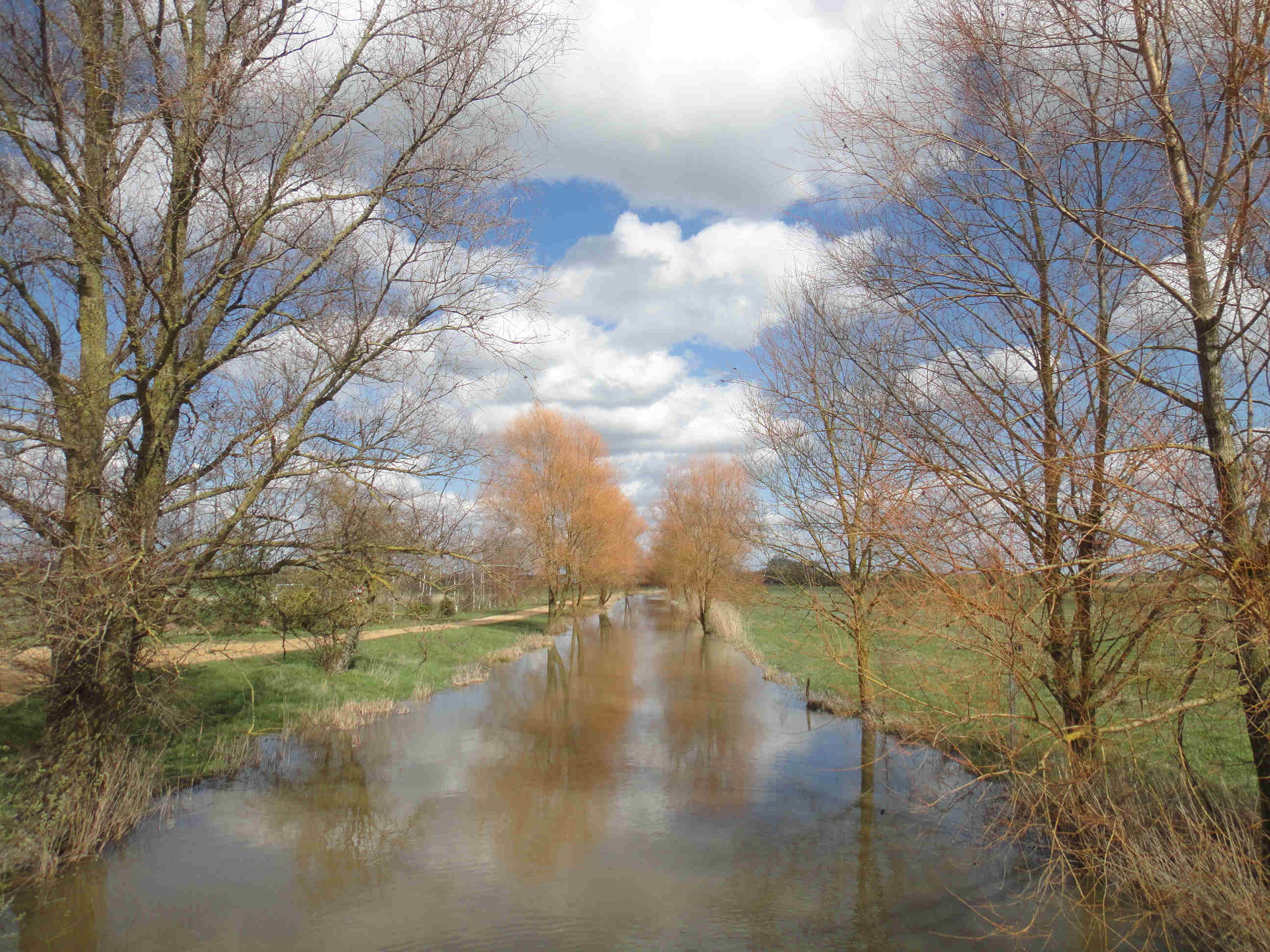 River Albe near Insming in Lorraine, France